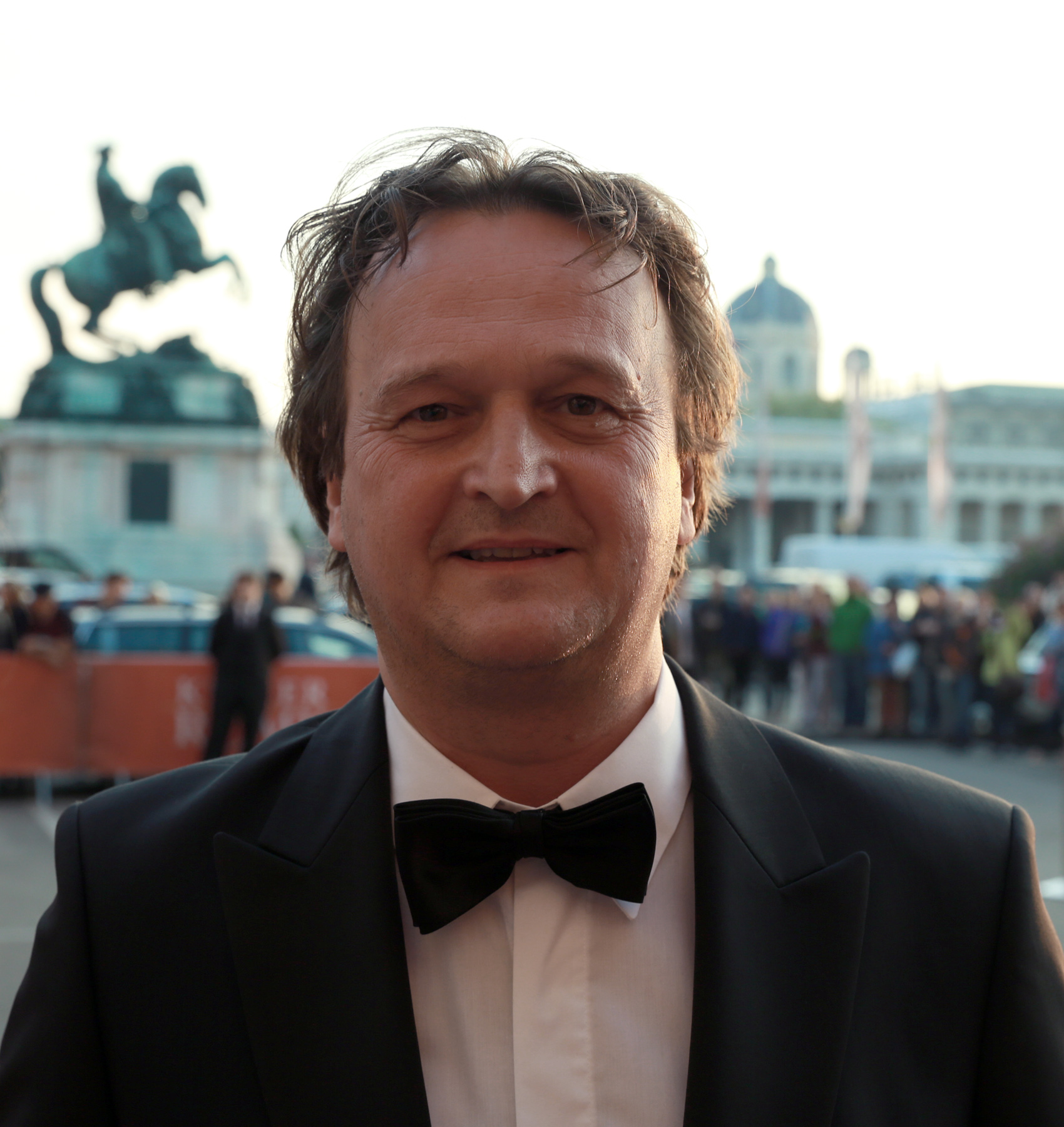 Hanno Settele at the Romy film awards 2014 (Hofburg Imperial Palace in Vienna)